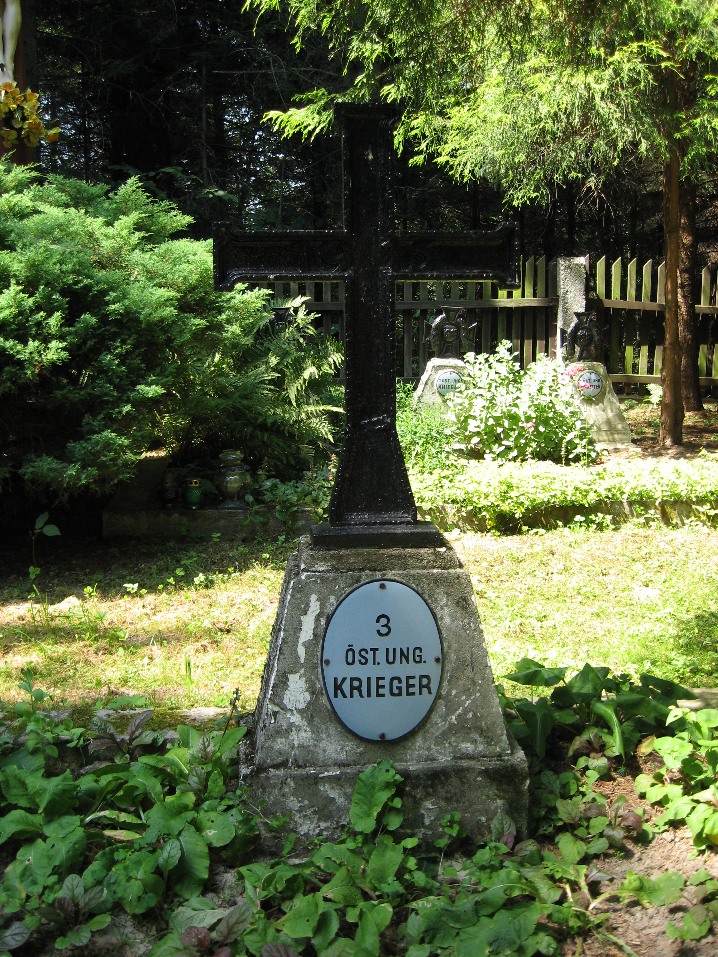 WWI Military Cemetery no.158 Poland, Tuchow